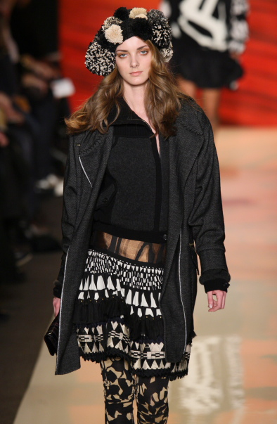 Denisa Dvorakova in Diane von Furstenberg Fall 2009